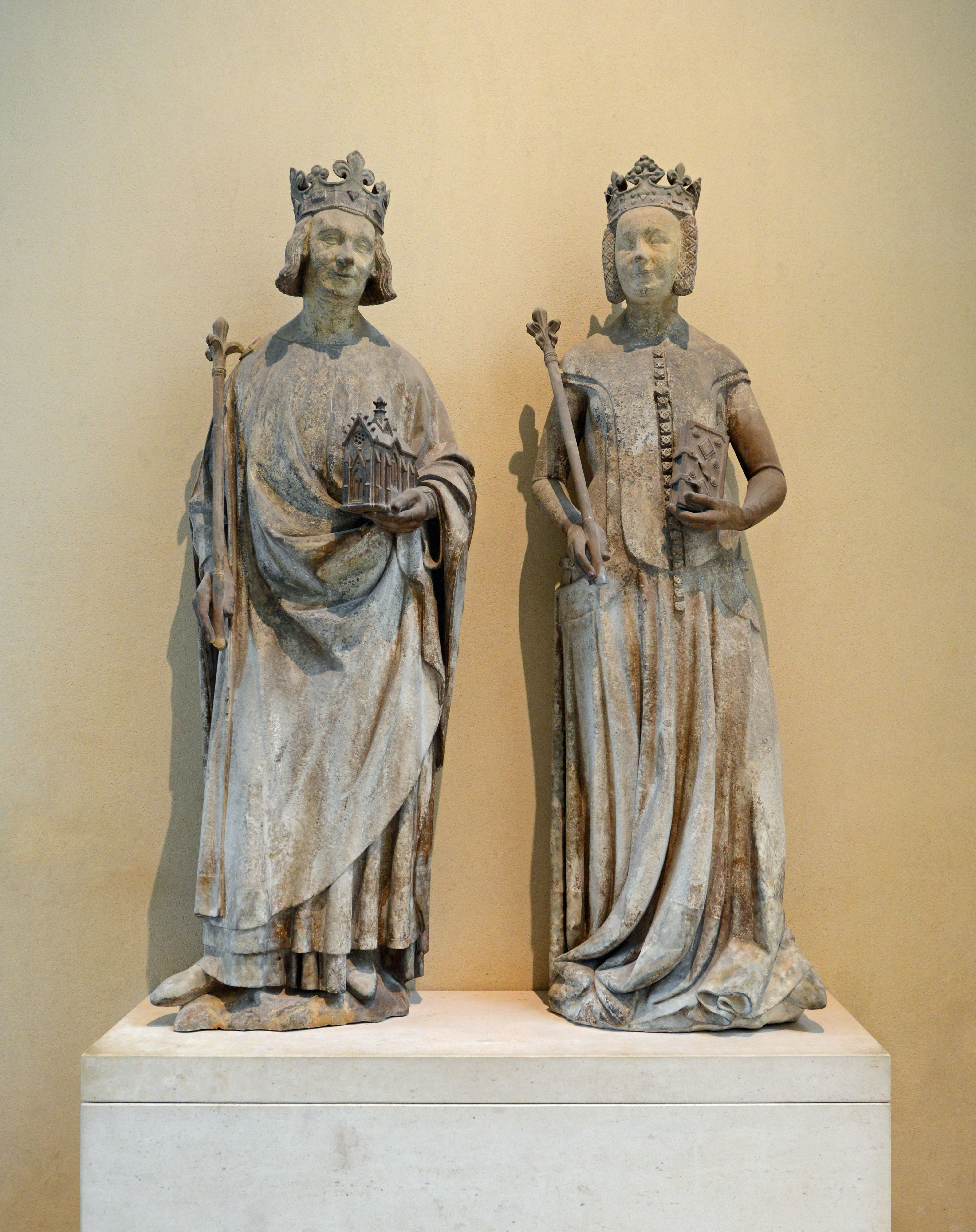 Charles V and Joanna of Bourbon